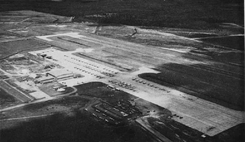 Aerial view of the U.S. Naval Air Station Glynco, Georgia (USA), in the early 1960s. Naval Air Station Glynco was an operational naval air station from 1942 to 1974. It is now a public airport (Brunswick Golden Isles Airport) located 5 miles (8 km) north of the city of Brunswick, in Glynn County, Georgia (USA).